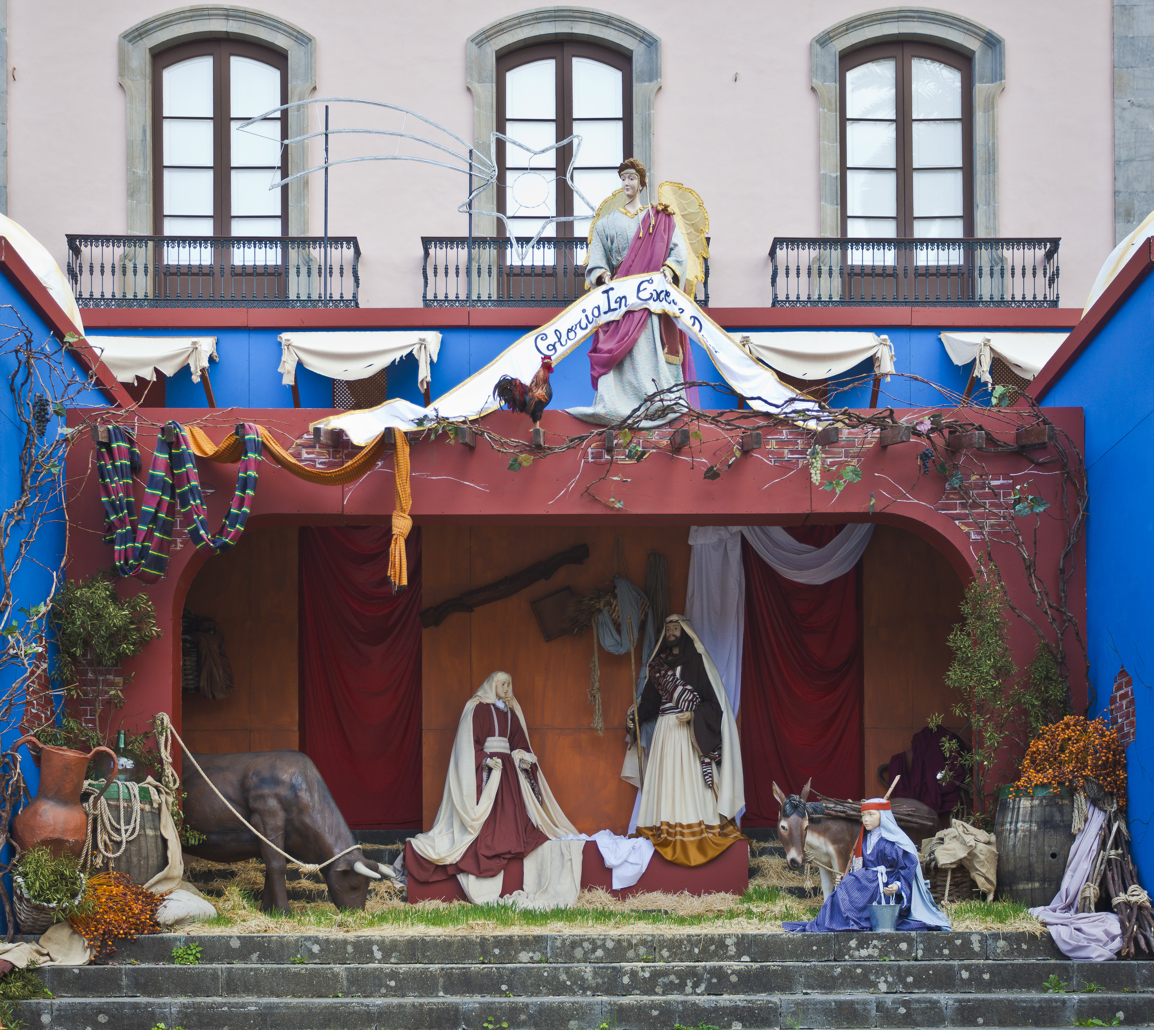 Nativity in the Town Hall Square, La Orotava, Tenerife, Spain